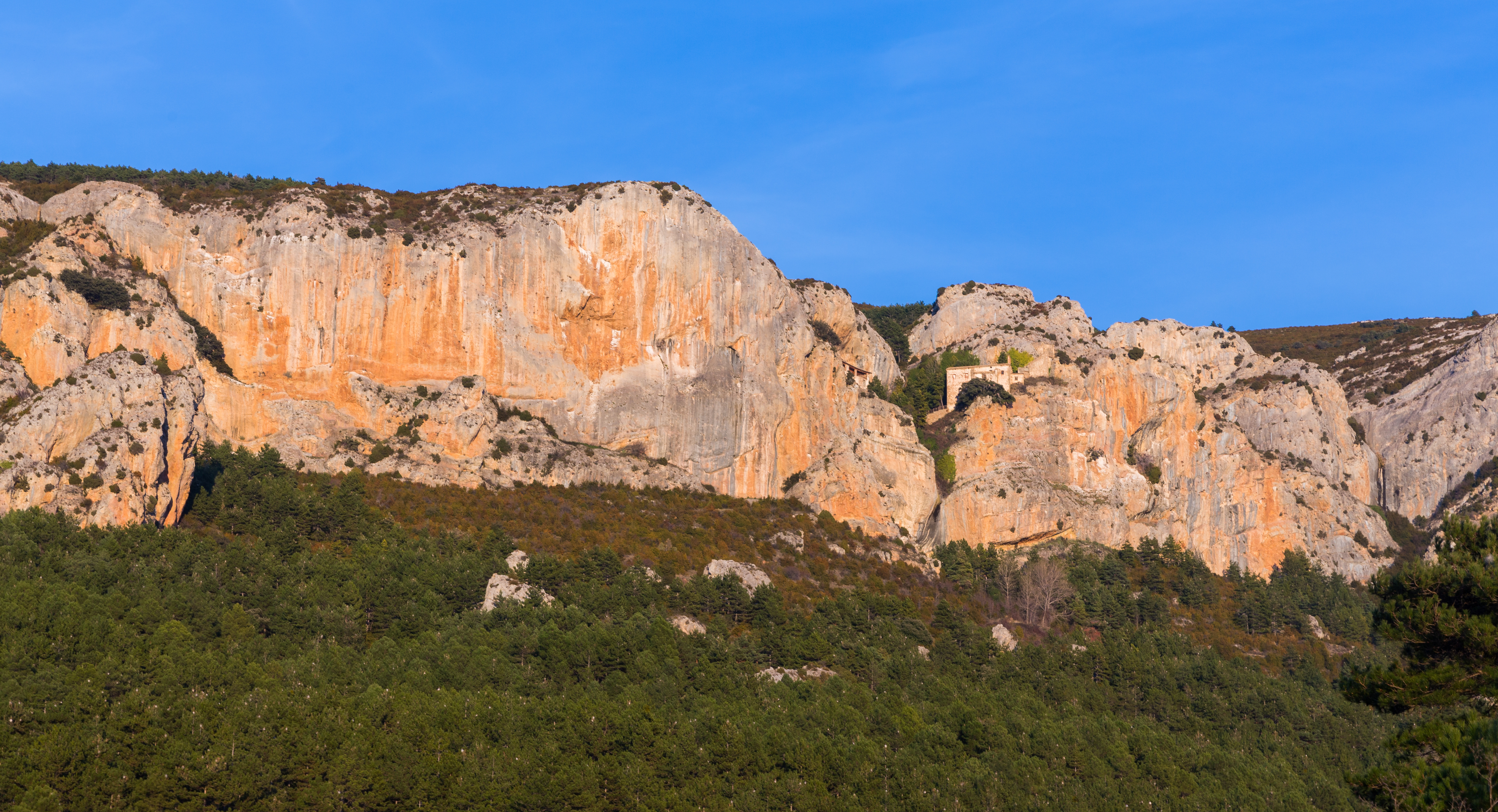 Hermitage of the Virgin of the Rock, LIC Sierras de Santo Domingo y Cabellera, Aniés, Huesca, Spain.